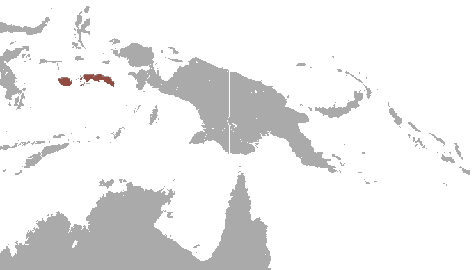 Temminck's Flying Fox (Pteropus temminckii) range